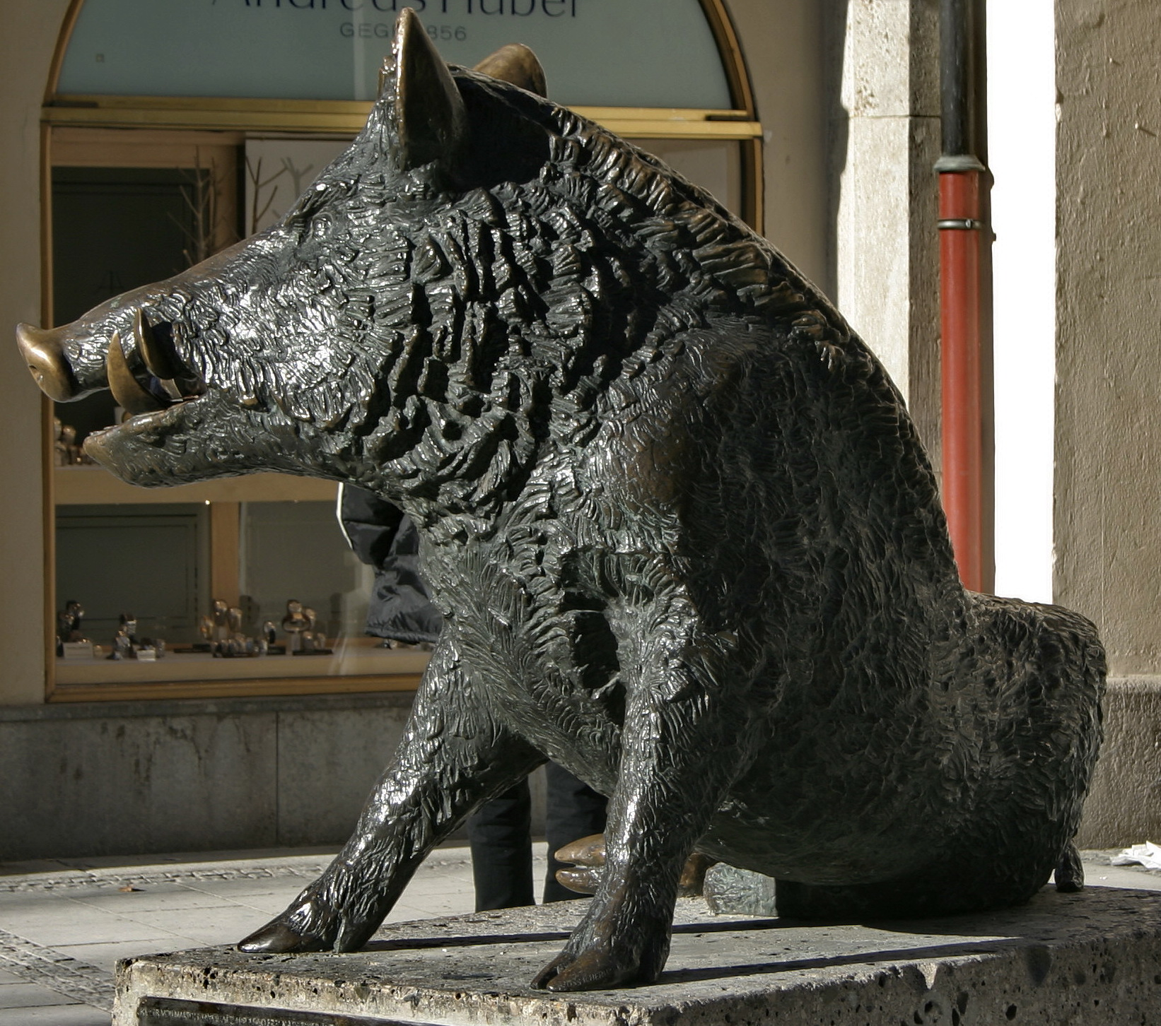 Boar in front of the Deutschen Jagd- und Fischereimuseum (Germanm Hunting and Fishery Museum) in der Neuhauser Strasse in München